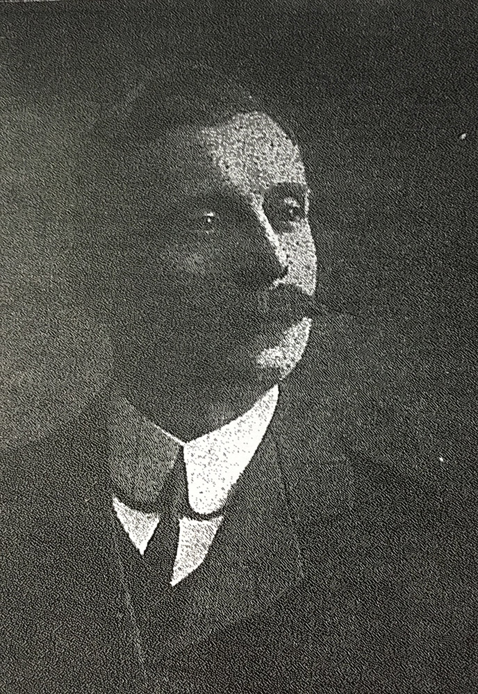 1906 pic of TRhorley Smith